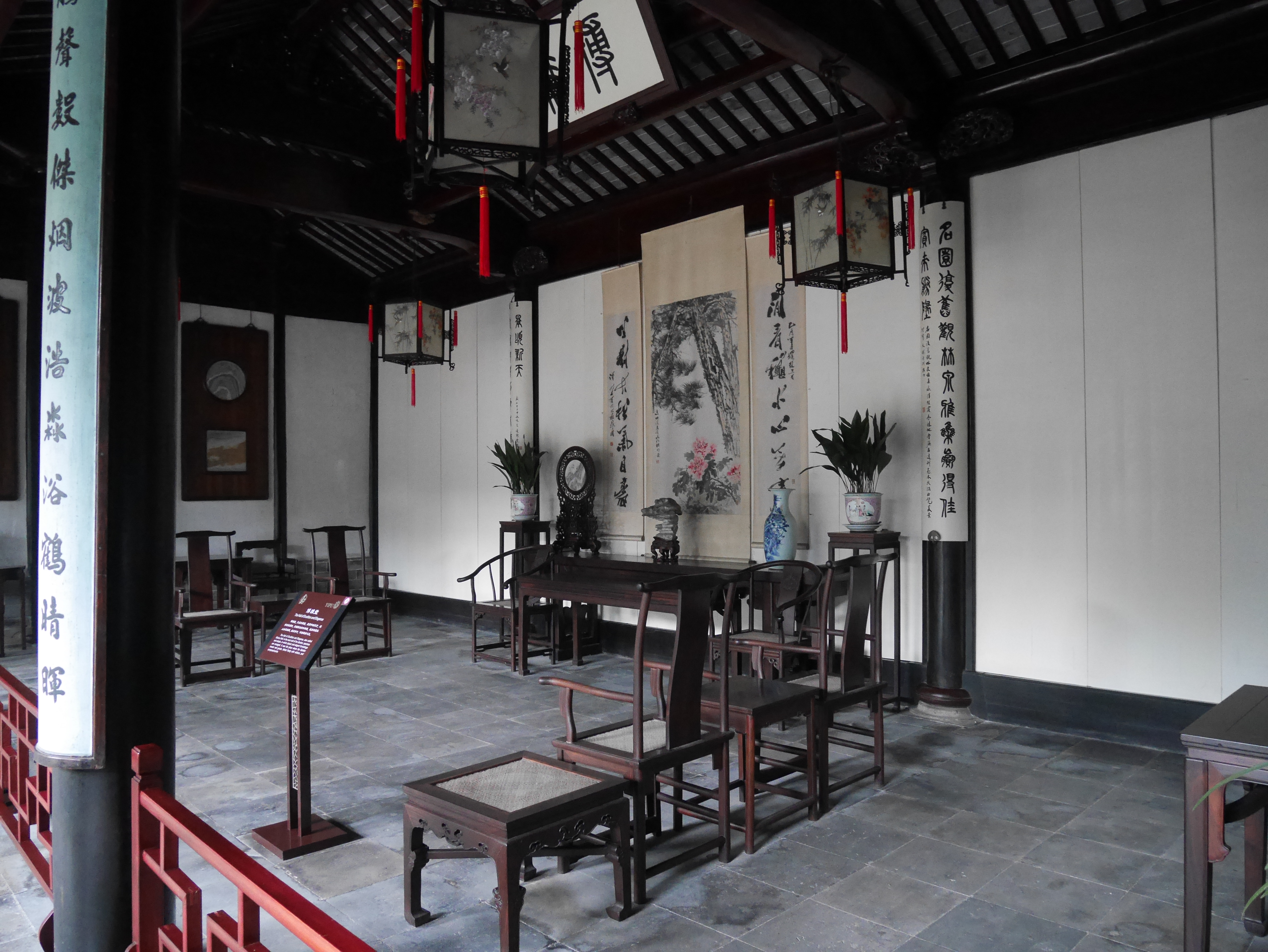 Hall of Erudition and Elegance in Suzhou's Garden of Cultivation